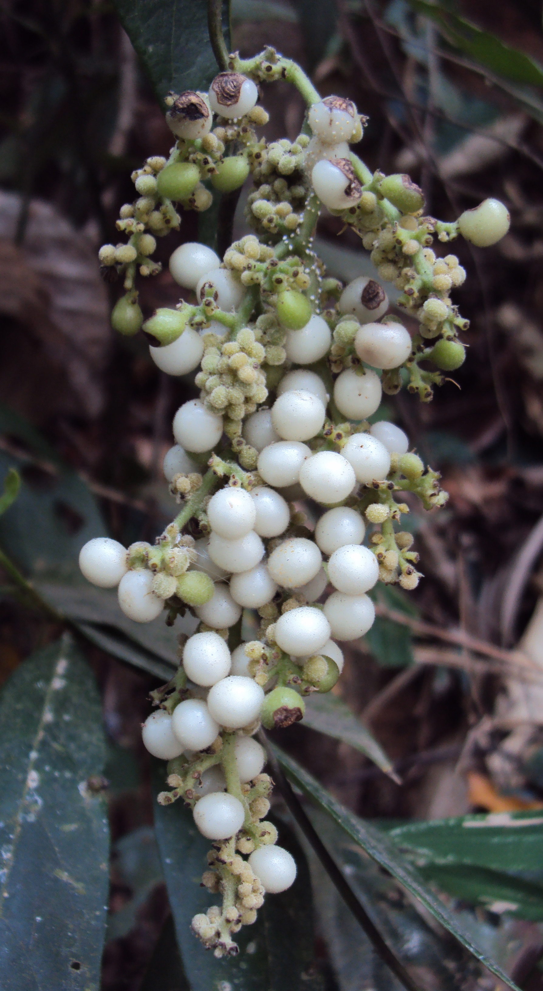 Cyclea peltata